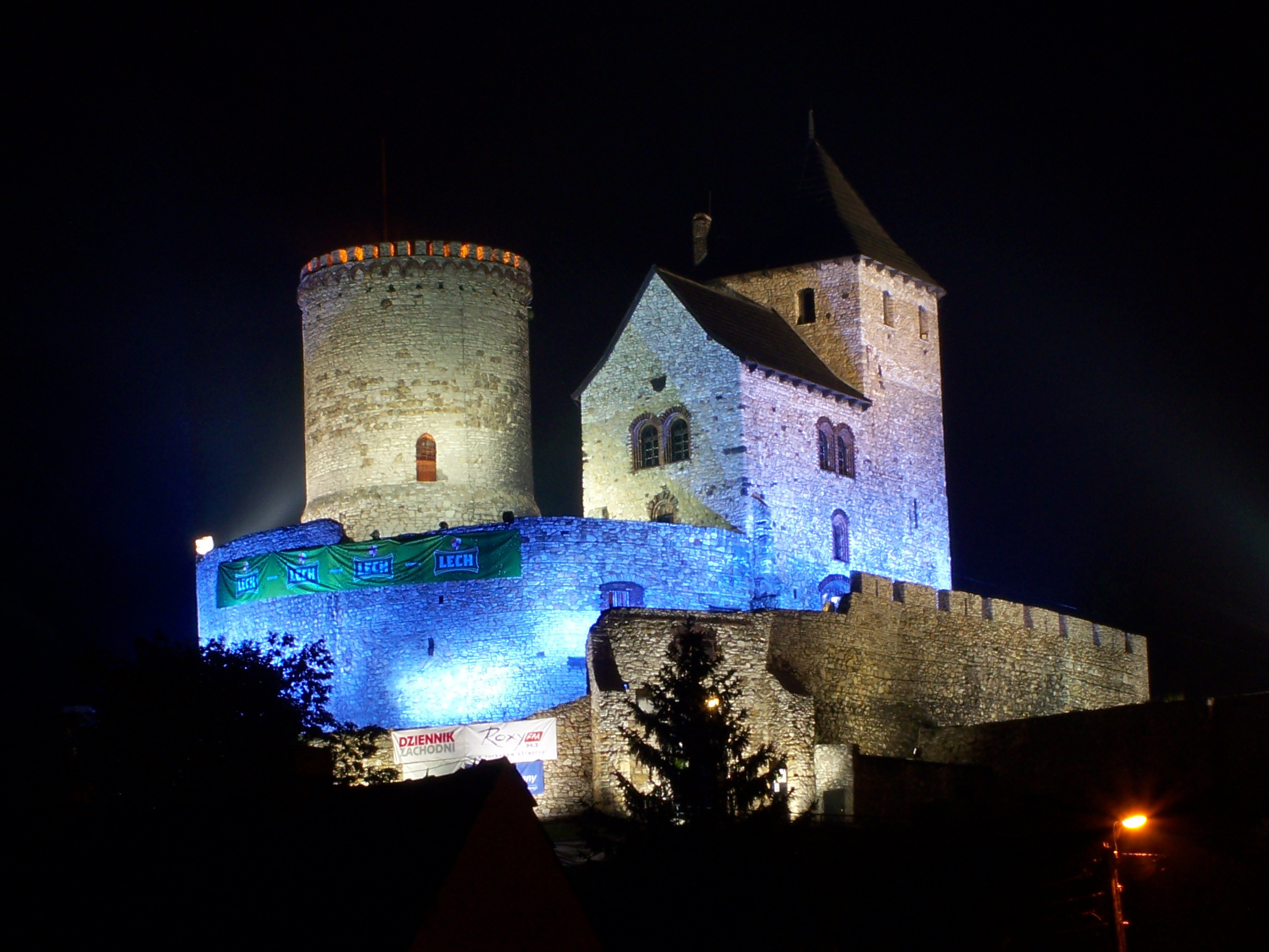 Castle in Będzin by night.